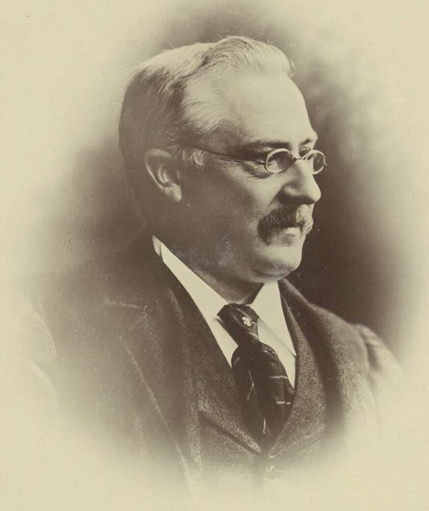 George Turner From the 1898 Australasian Federal Convention Album.